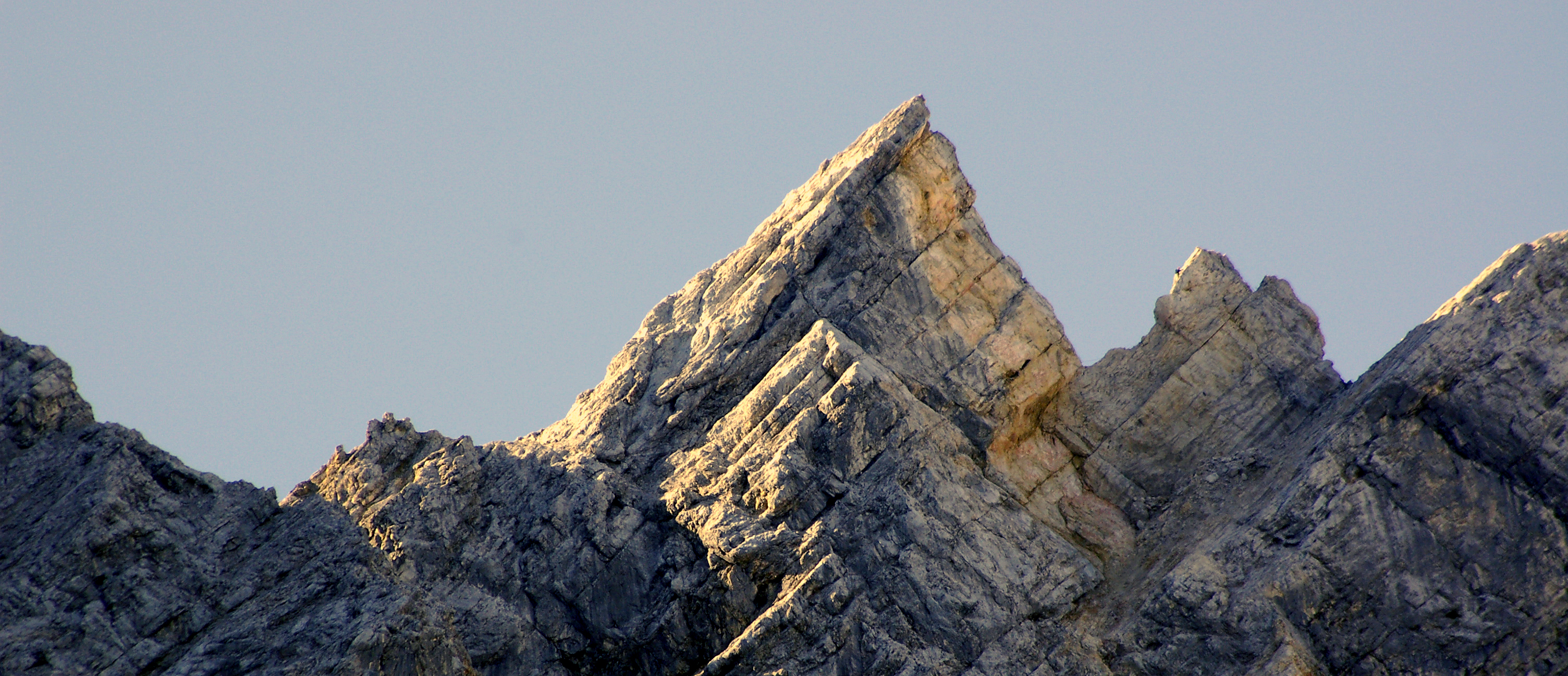 Vollkarspitze (2.630 m) from N, Wetterstein, Northern Limestone Alps (with alpinist at the Jubiläumsgrad)